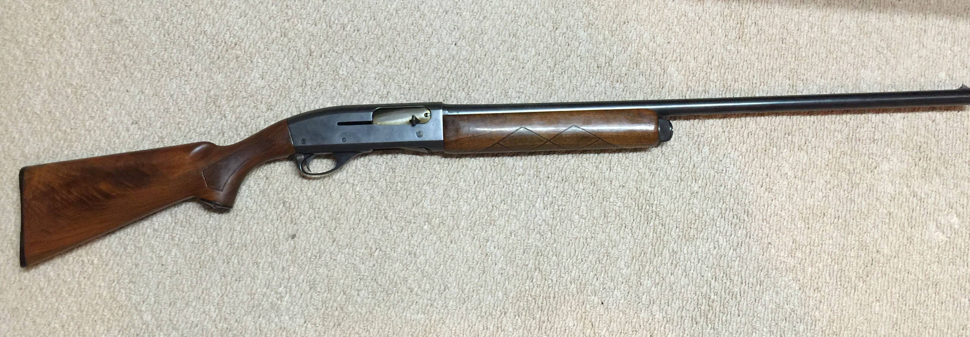 A 1953 Remington 11-48 in 12ga with a 28" barrel